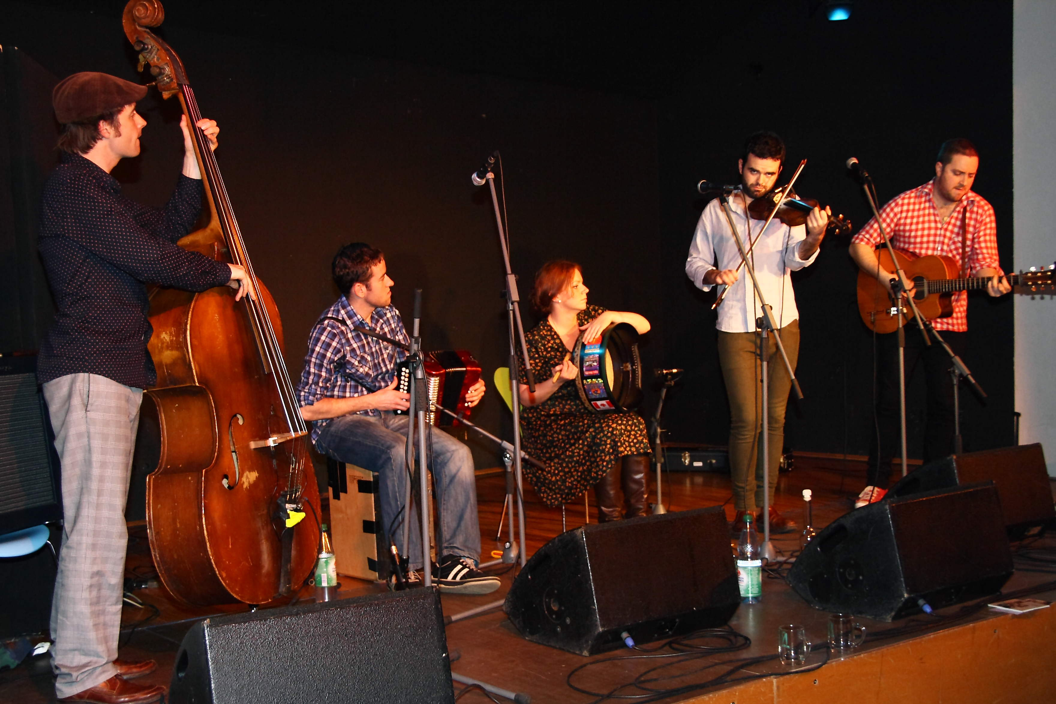 Gráda with Christof van der Ven at Kult, Niederstetten, 2010.